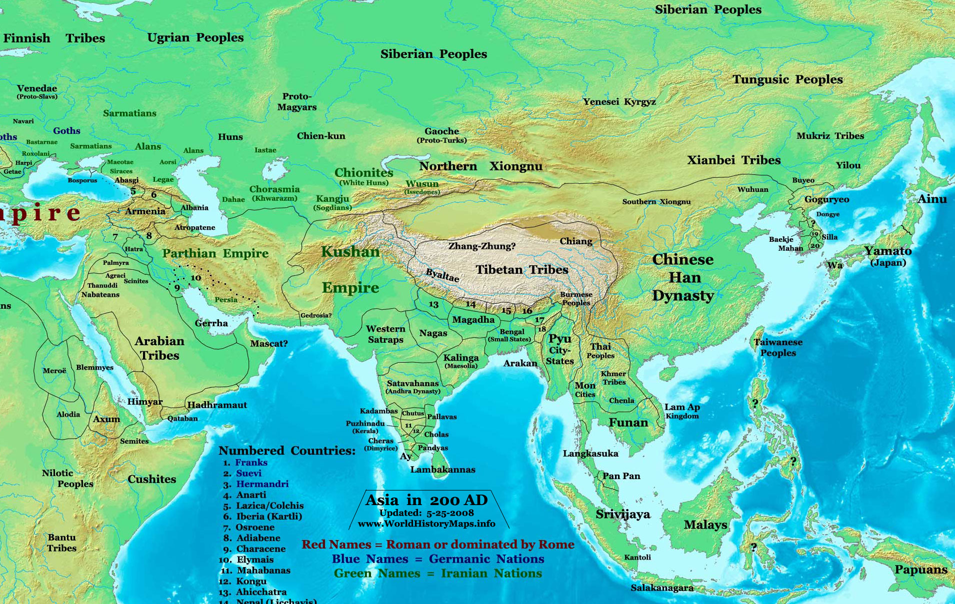 This image is a zoomed-in version of Eastern Hemisphere in 200 AD. thumb|300px|left|Eastern Hemisphere in 200 AD. Author: Thomas A. Lessman. Source URL: Image was created by me (Thomas Lessman) based on map of Eastern Hemisphere in 200AD. Image is free for public and/or educational use. I would appreciate a mention if this image is used elsewhere. If anyone is interested in helping further this work, please contact Thomas Lessman at . Other Historical Maps by Thomas Lessman 1. en: 500 BC. 2. en: 323 BC. 3. en: 200 BC. 4. en: 100 BC. 5. en: 050 BC. 6.en: 001 AD. 7. en: 050 AD. 8. en: 100 AD. 9. en: 200 AD. 10. en: 300 AD. 11. en: 400 AD. 12. en: 475 AD. 13. en: 476 AD. 14. en: 477 AD. 15. en: 500 AD. 16. en: 565 AD. 17. en: 600 AD. 18. en: 700 AD. 19. en: 800 AD. 20. en: 900 AD. 21. en: 1025 AD. 22. en: 1100 AD. 23. en: 1200 AD.